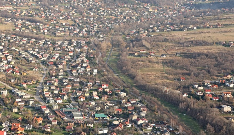 Aerial photographs of Straconka - district of Bielsko-Biała, Poland.